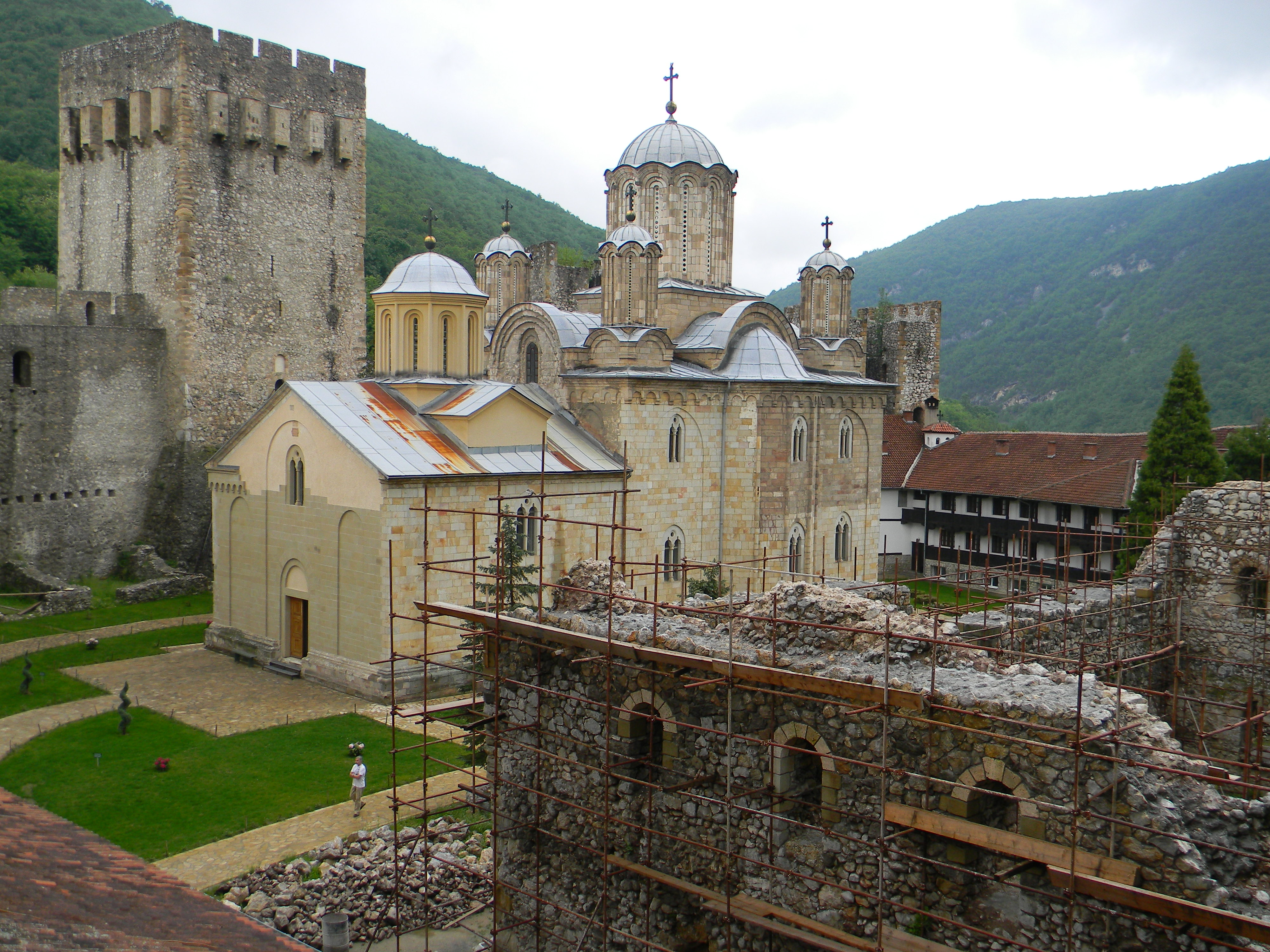 Fortress and Monastery of Manasija, near Despotovac, Serbia